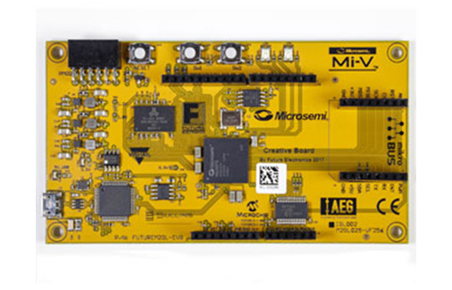 IGLOO2 Pre-Programmed RISC-V Development Board